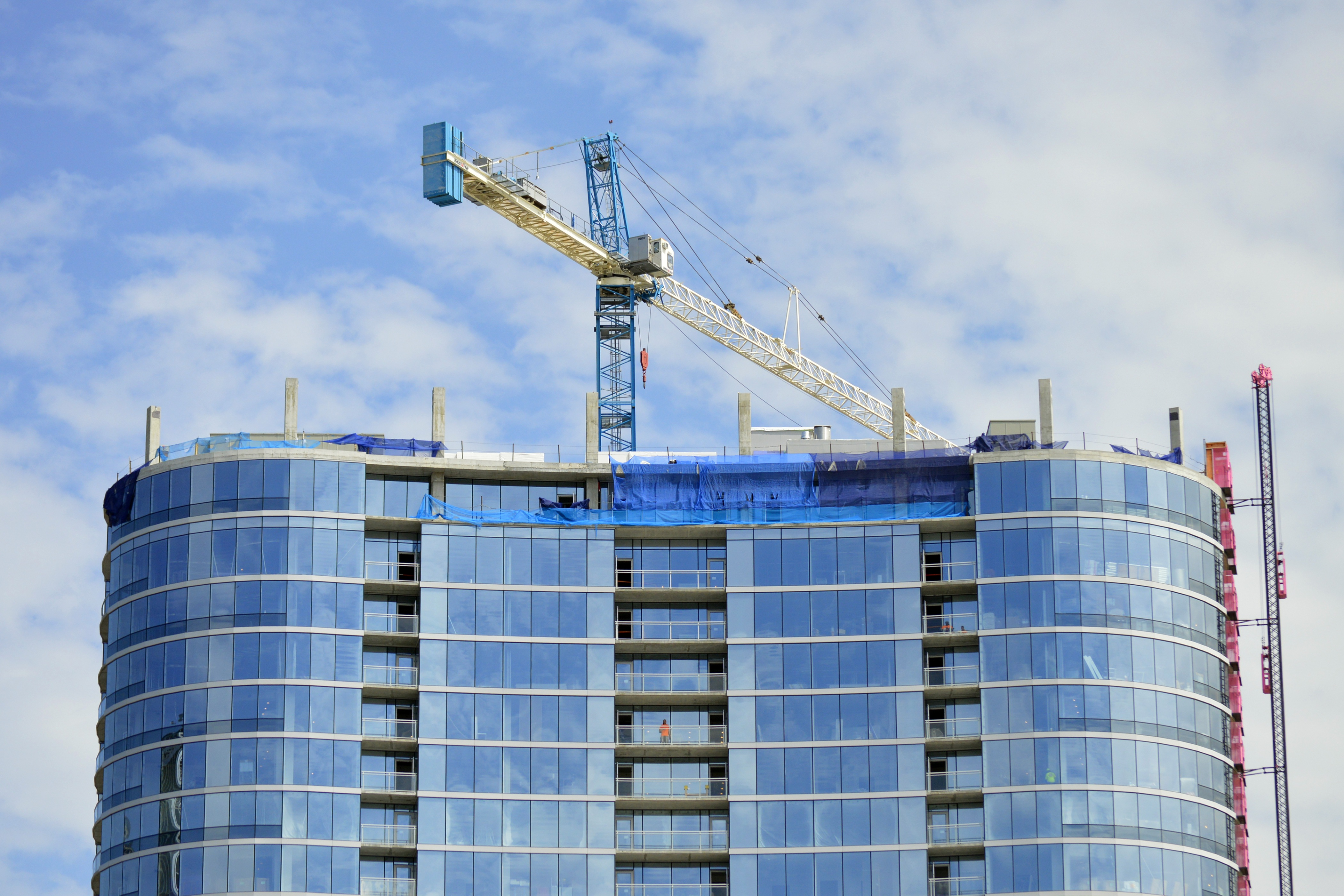 360 Market Square under construction in 2017, Indianapolis, Indiana, USA.